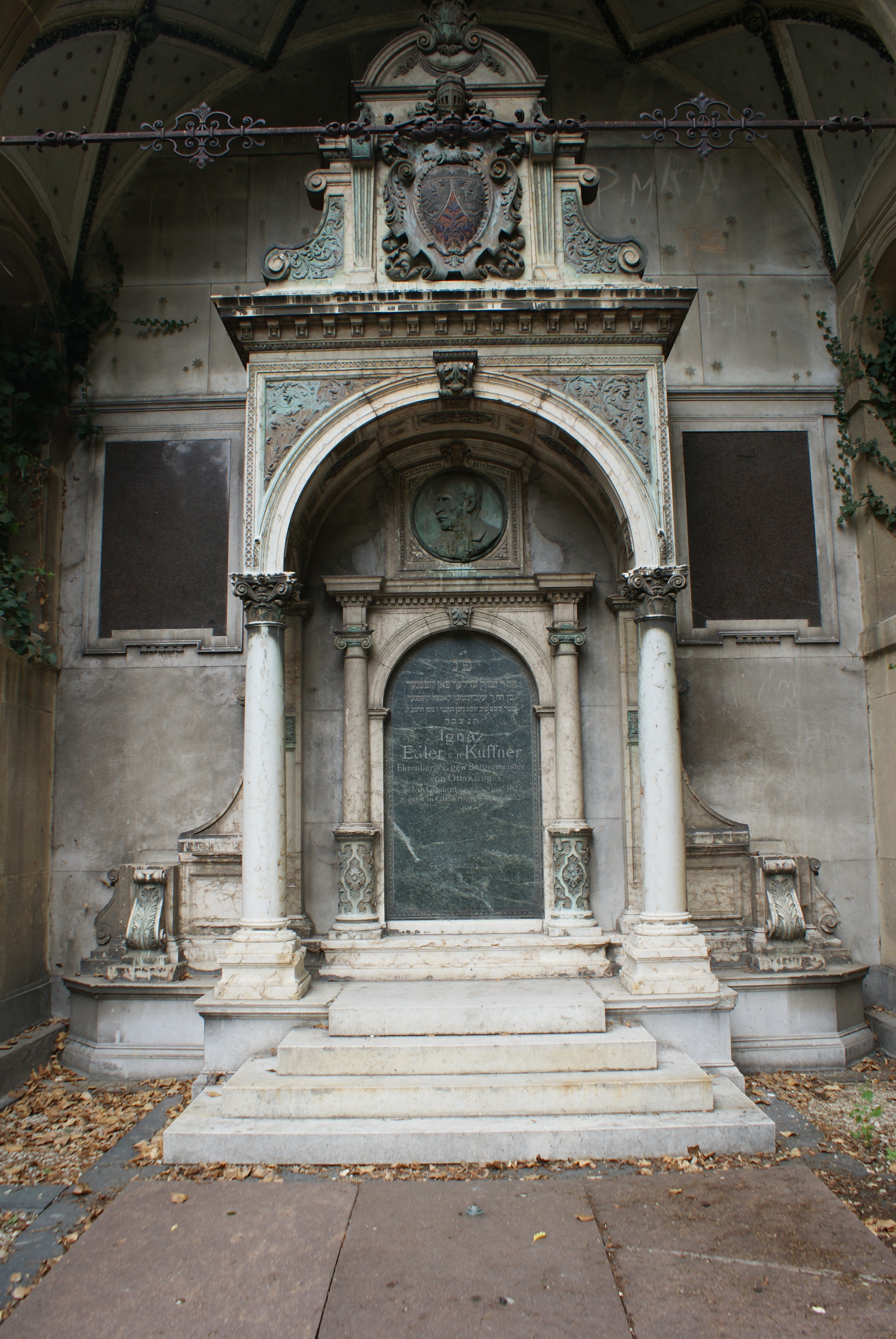 Jewish cemetery in Břeclav, Břeclav district, Czech Republic.